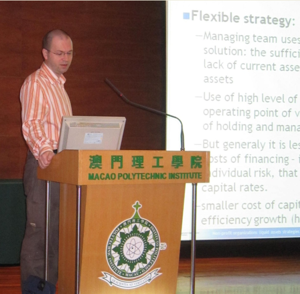 Michalski's presentation at MISAF conference in China, Macao, November 2011